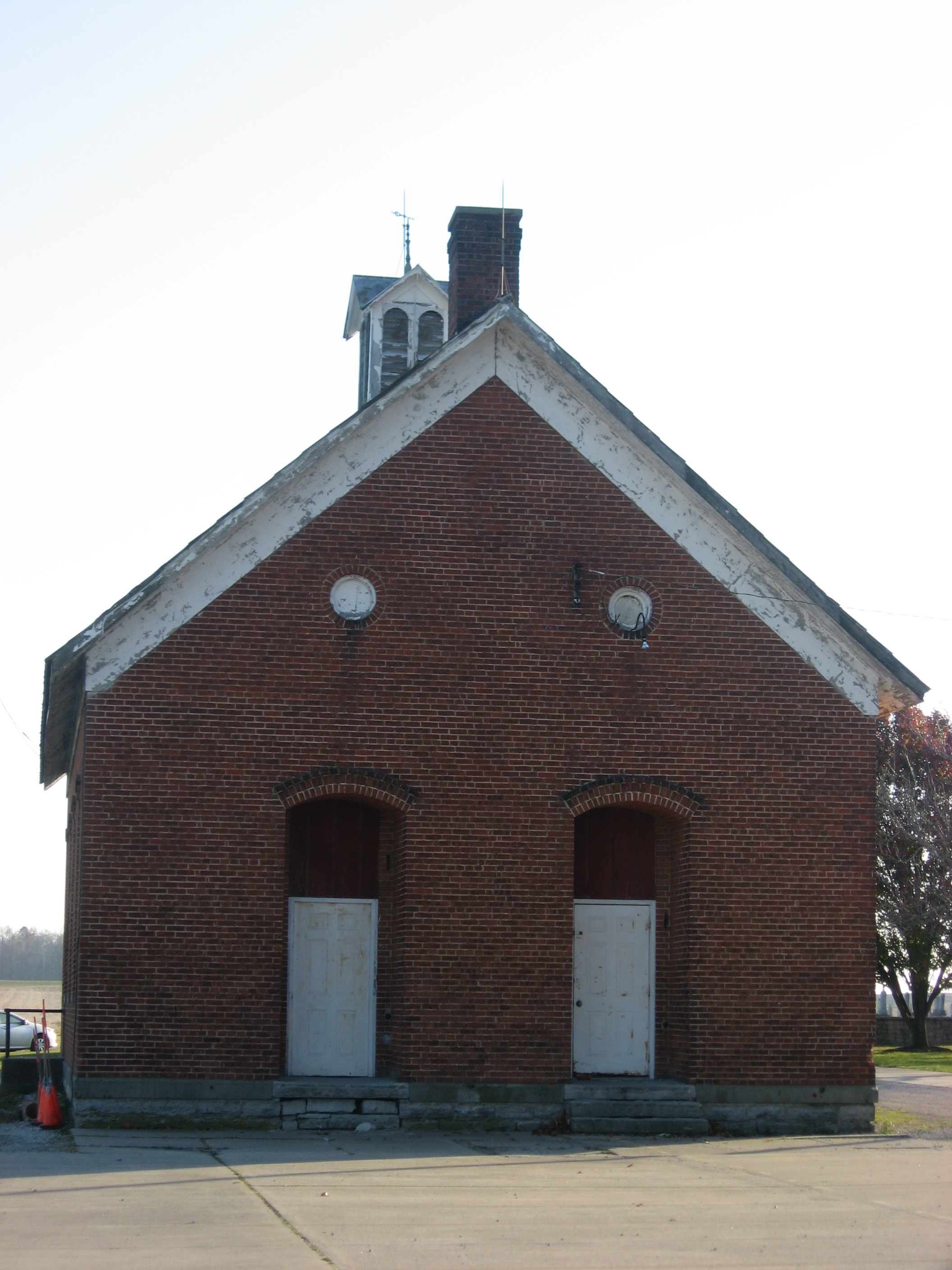 Front of the former St. Rose Roman Catholic School, located along State Route 119 in Cassella, an unincorporated community in Marion Township, Mercer County, Ohio, United States. Built in 1892, the school and its associated church and rectory were listed together on the National Register of Historic Places as a part of the Cross-Tipped Churches of Ohio Thematic Resources.